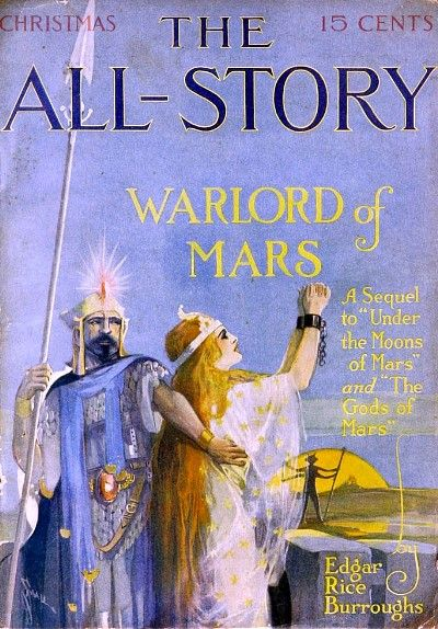 All-Story Weekly, December 1913